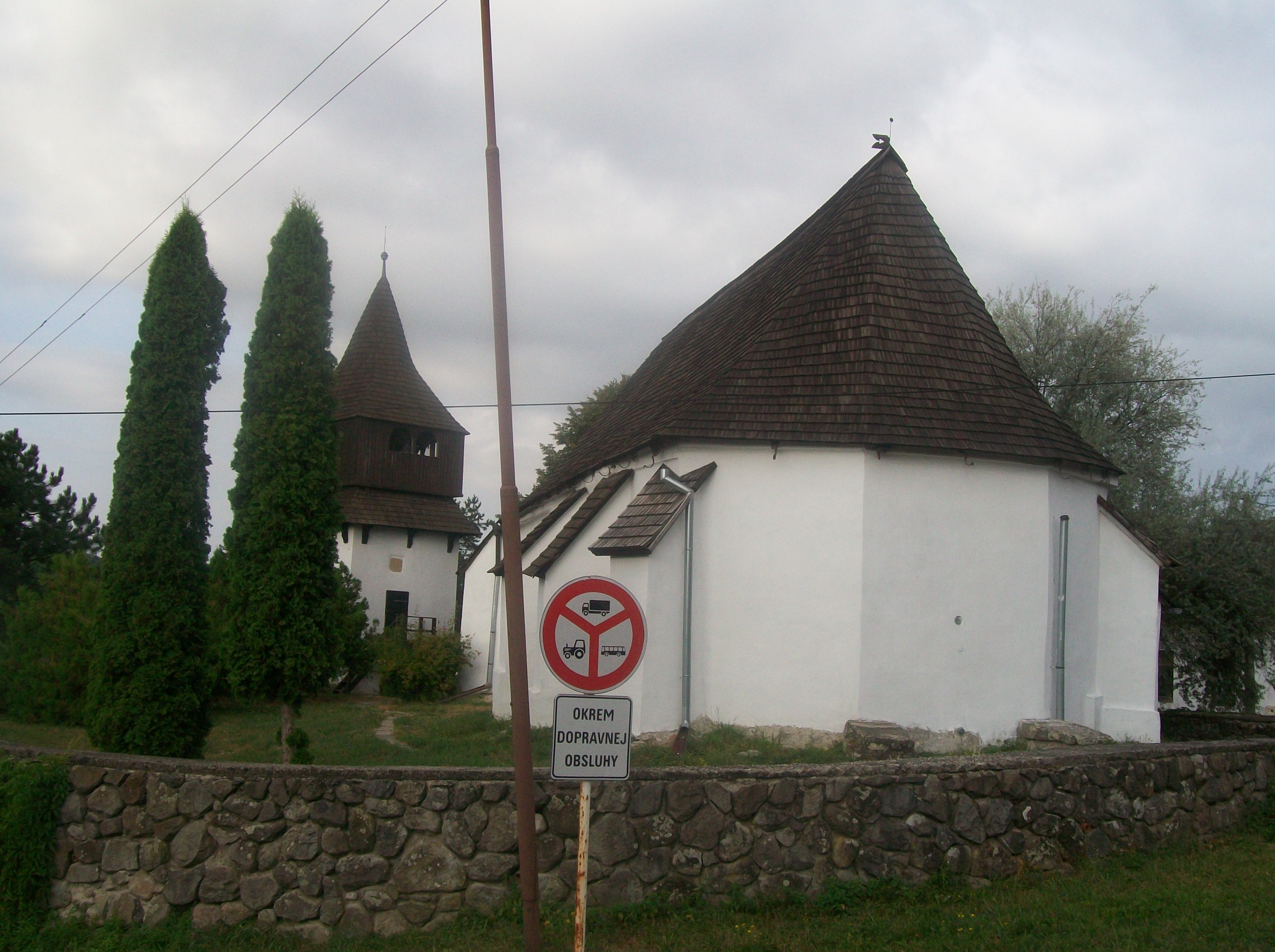 Pôtor, Church and Tower Nat. cult. monumentSlovenčina: Pôtor, kostol a veža - nár. kult. pamiatka Object location48° 14′ 00.31″ N, 19° 25′ 24.38″ E